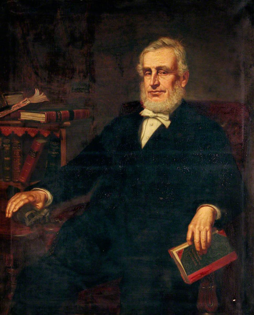 Portrait of John Gunn (1801–1890), English cleric and geologist.